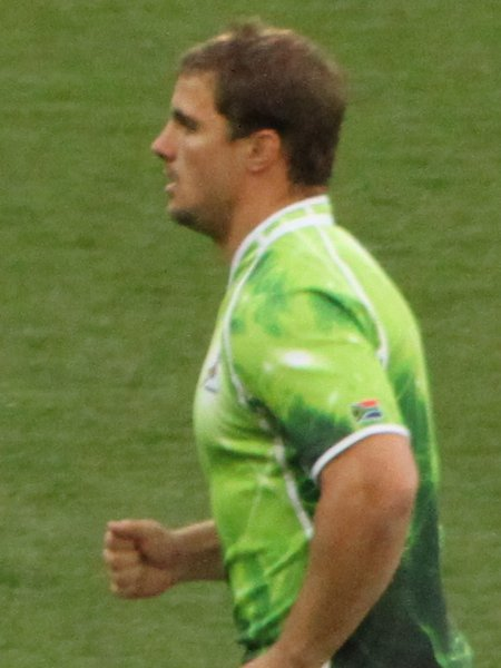 South African rugby union player Heinrich Brüssow before 2011 Rugby World Cup mtch against Fiji